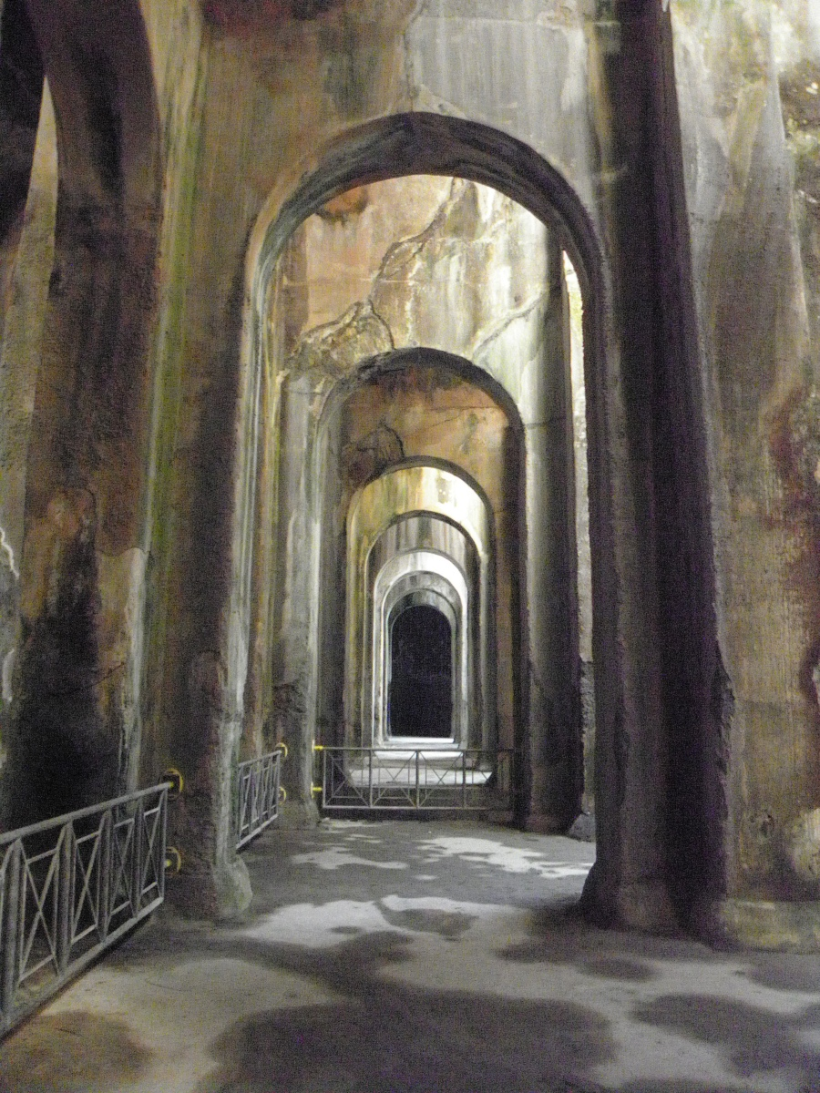 Baja